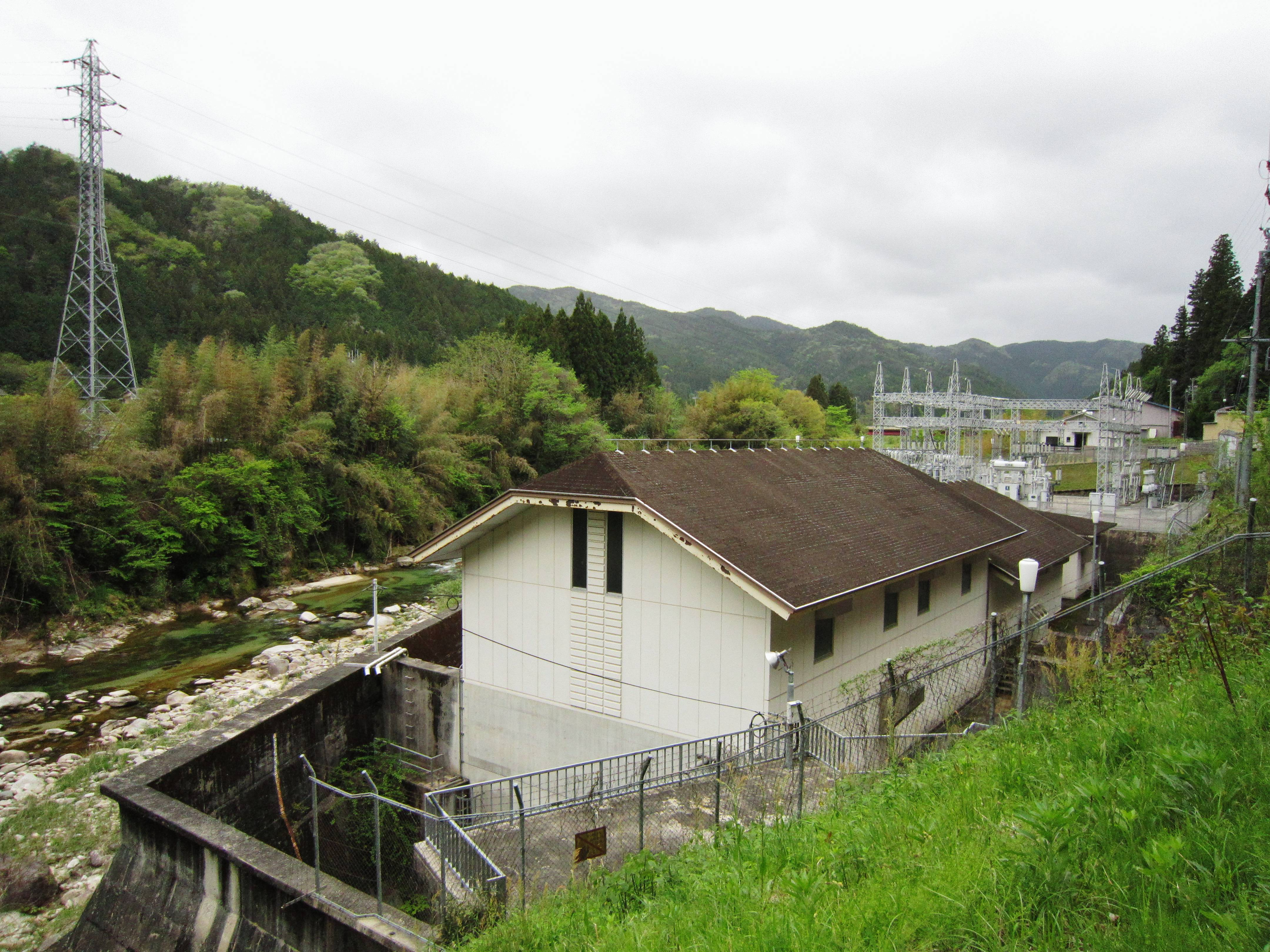 Shimomura power station.